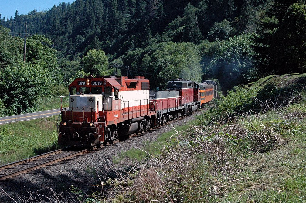 Eastbound at Brickerville July 4th 2005